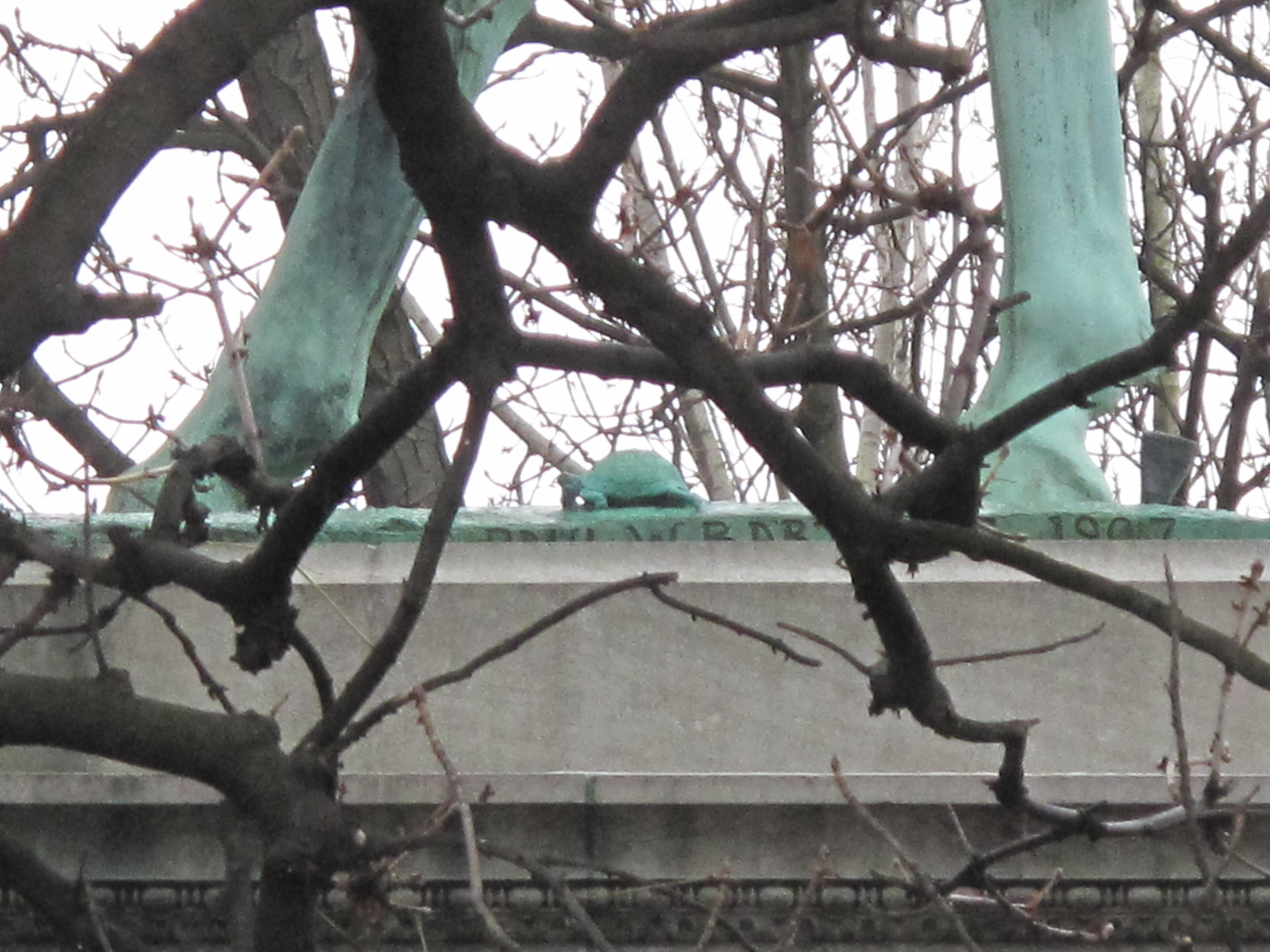 Turtle at the bottom of the legs of the horse of the statue of Lafayette in Paris 8th arr.